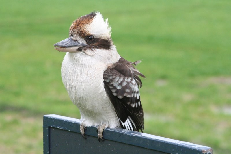 Picture of a kookaburra by User:KaiAdin.